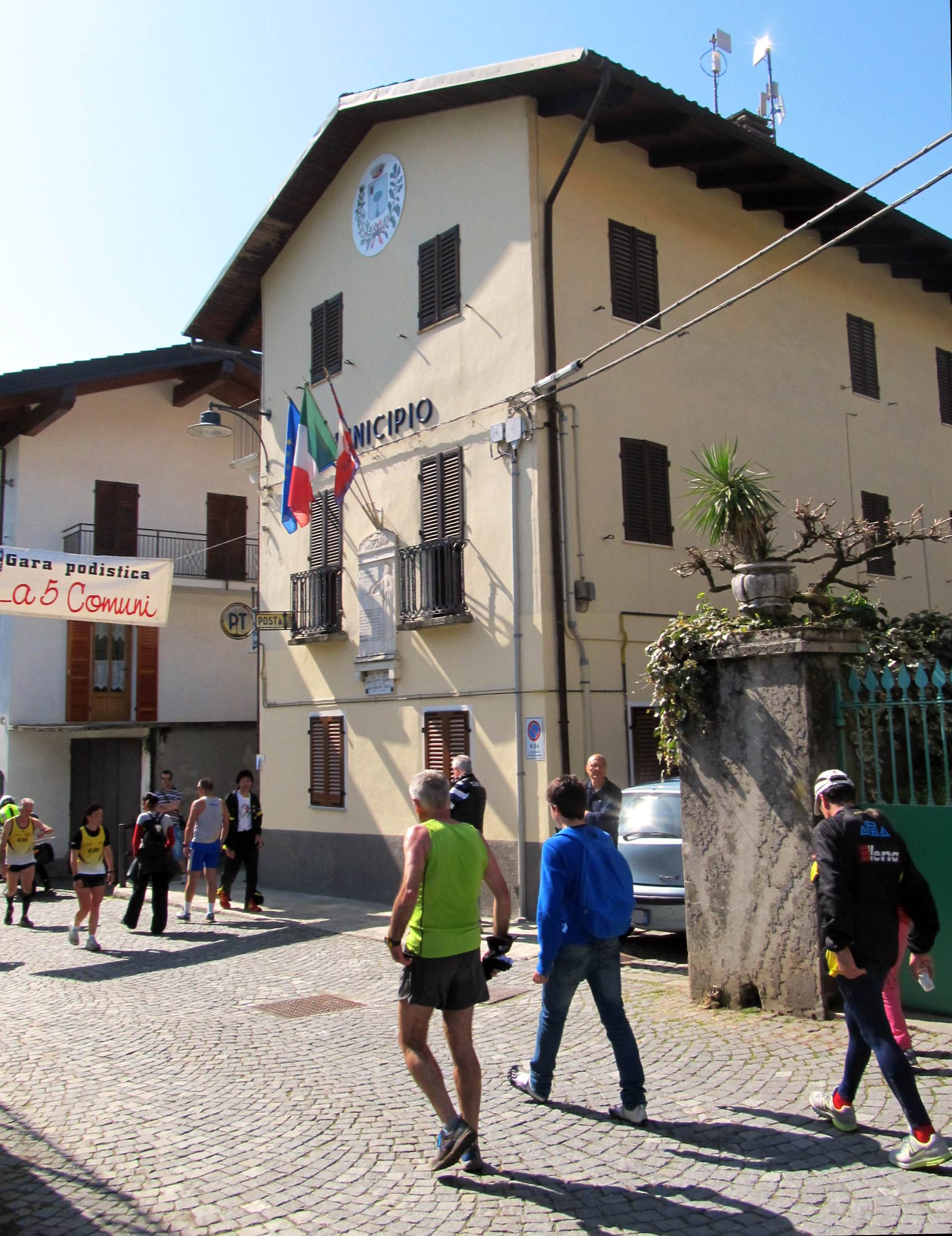 Pecco (TO, Italy): the town hall during the 5 comuni road race, year 2013